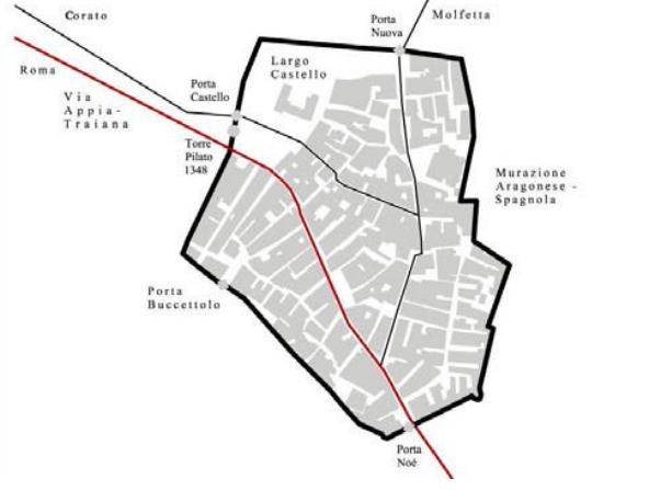 Ruvo di Puglia's walls